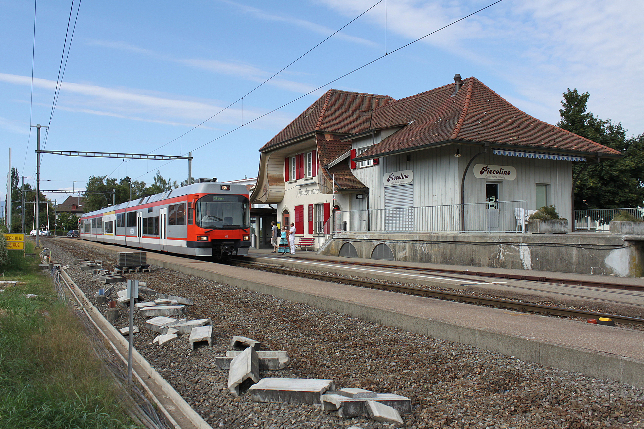 RBS ABe 4/12 62 arriving at Fraubrunnen train station.